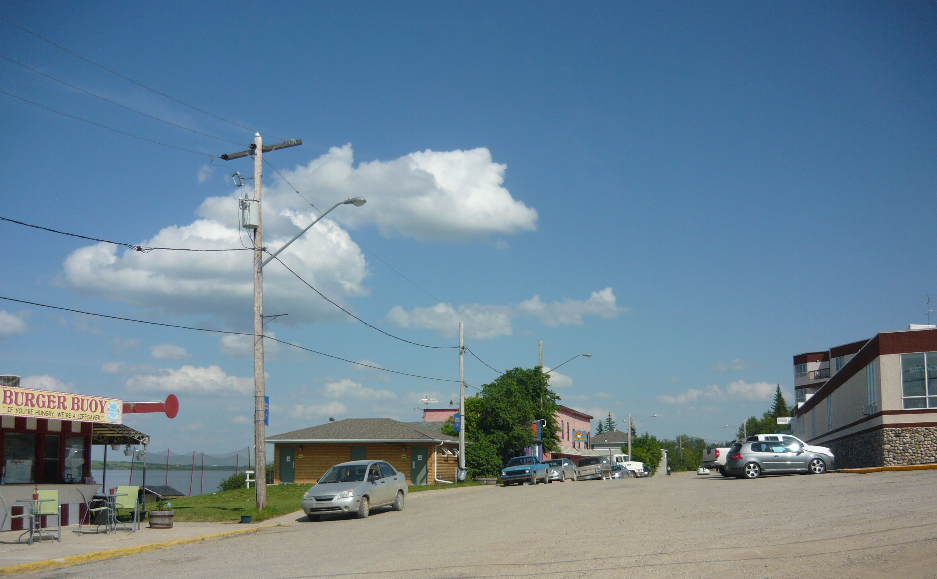 Business district of the resort community of Manitou Beach, Saskatchewan, Canada. Looking eastward on MacLachlan Avenue.